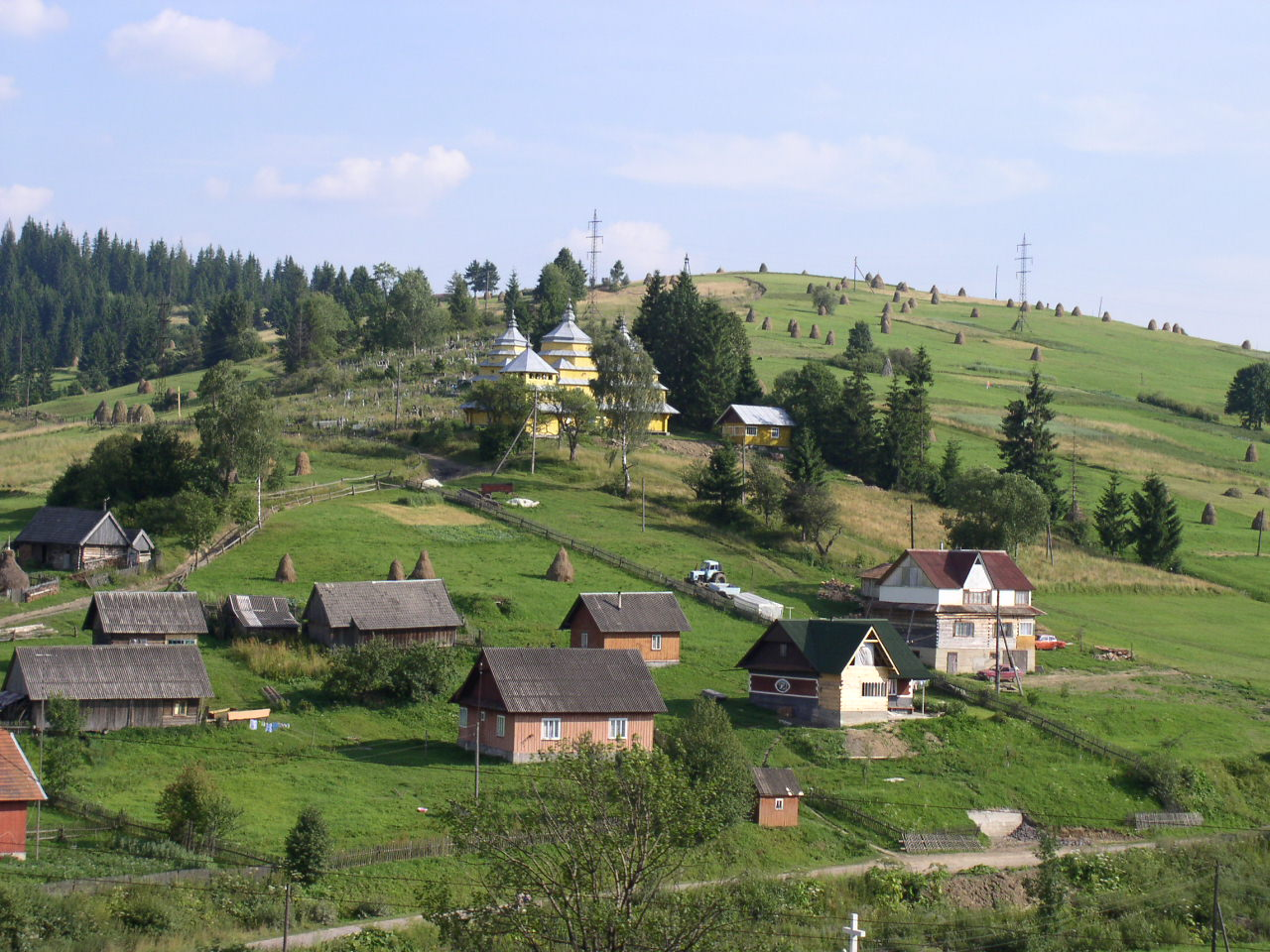 View from Kamianka-Buzka-Skole-Volovets railroad, Ukraine. Church in Oporets, Skole Raion, Lviv Oblast.